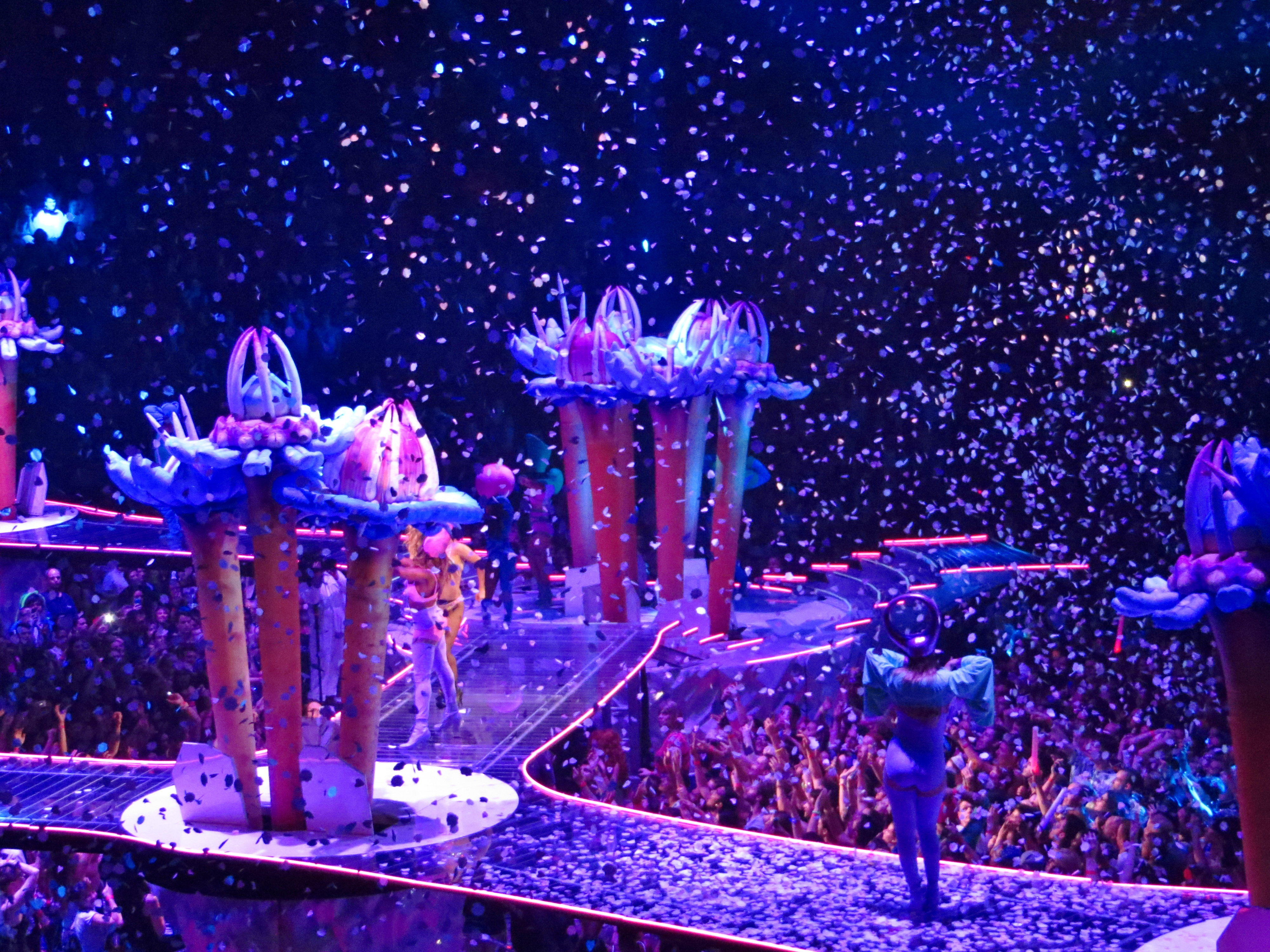 Lady Gaga, ARTPOP Ball Tour, Bell Center, Montréal, 2 July 2014 (22) Gaga performing on ArtRave: The Artpop Ball tour